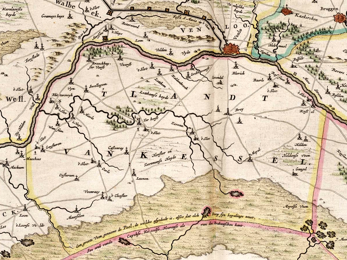 Map snippet of the Land of Kessel, Duchy of Guelders, Spanish Low Countries (1664).